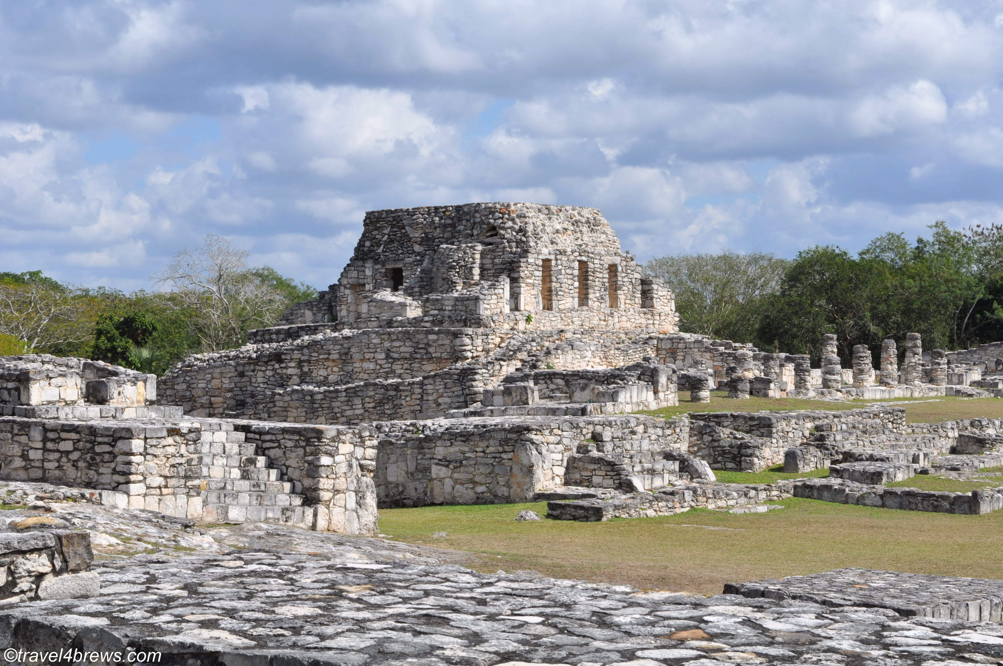 The Mayapan Ruins near the town of Telchaquillo on Mexico's Yucatan Peninsula.